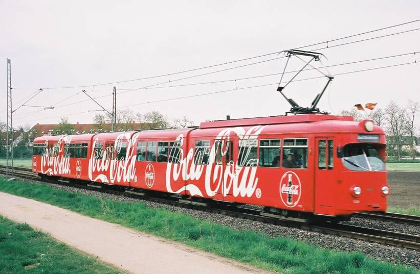 Coca-Cola-advertising train